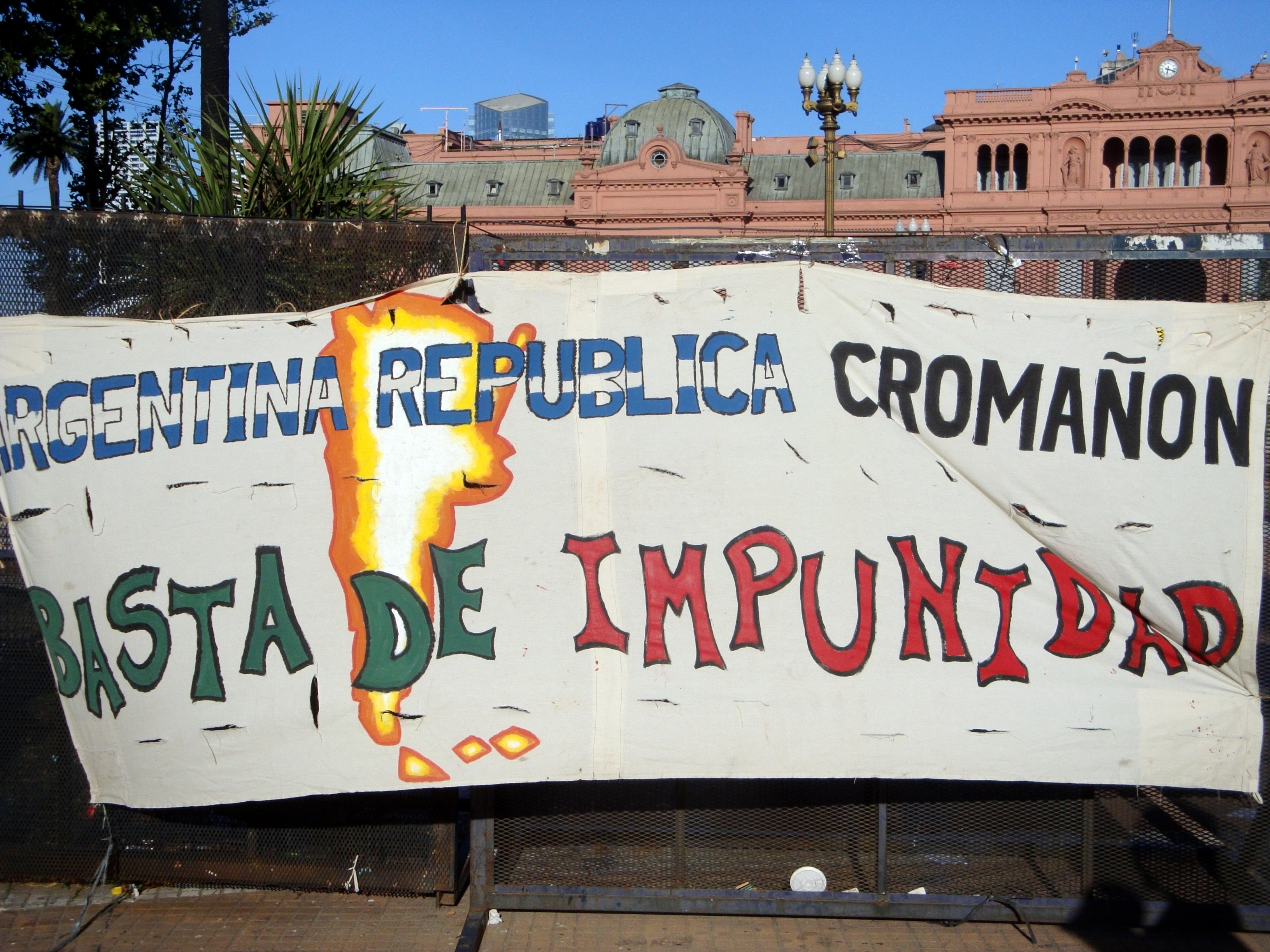 Flag in the Plaza de Mayo with inscriptions referring to the fire in the disco "Republica Cromagnon" occurred in 2004.